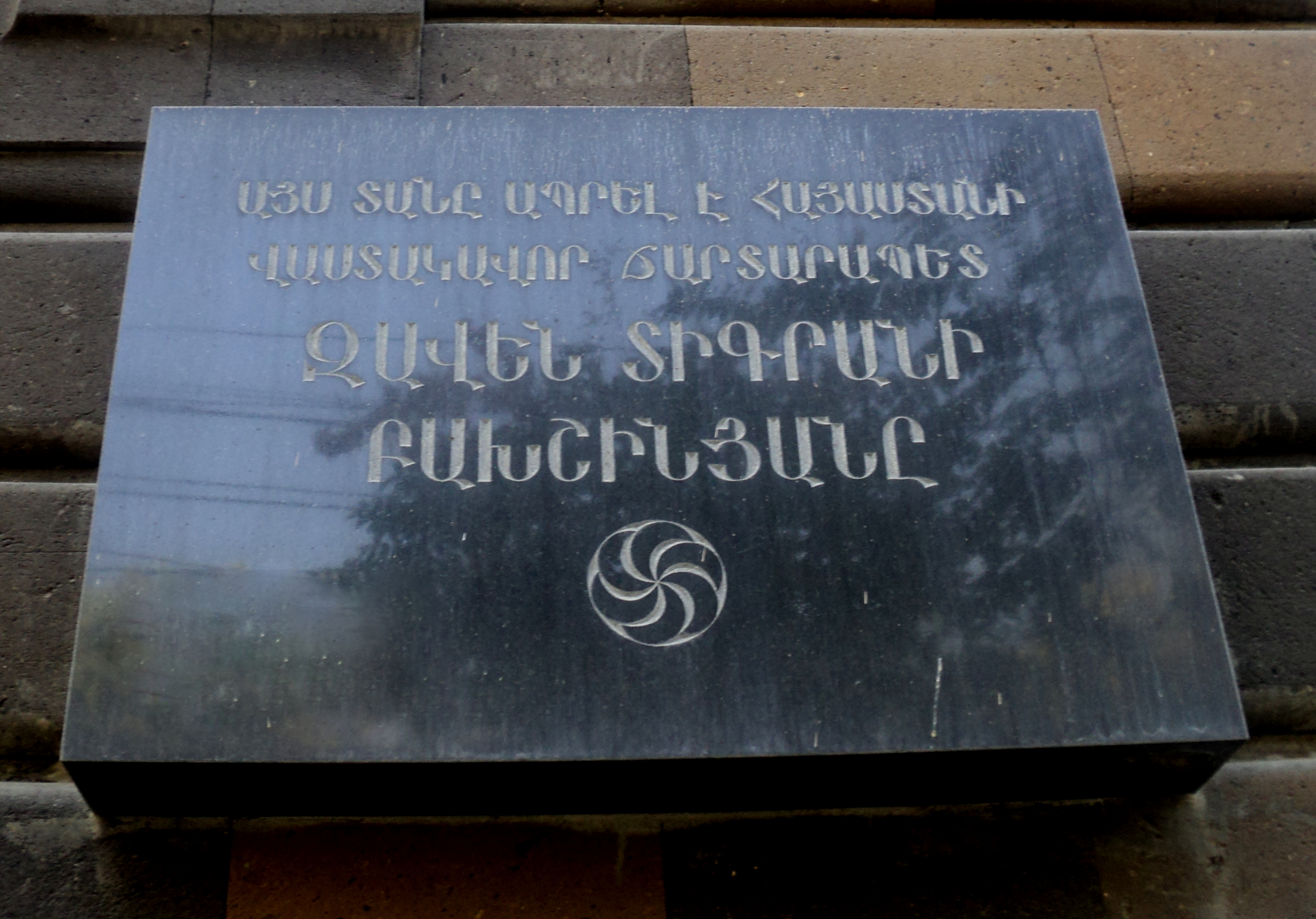 Zaven Bakhshinyan's plaque